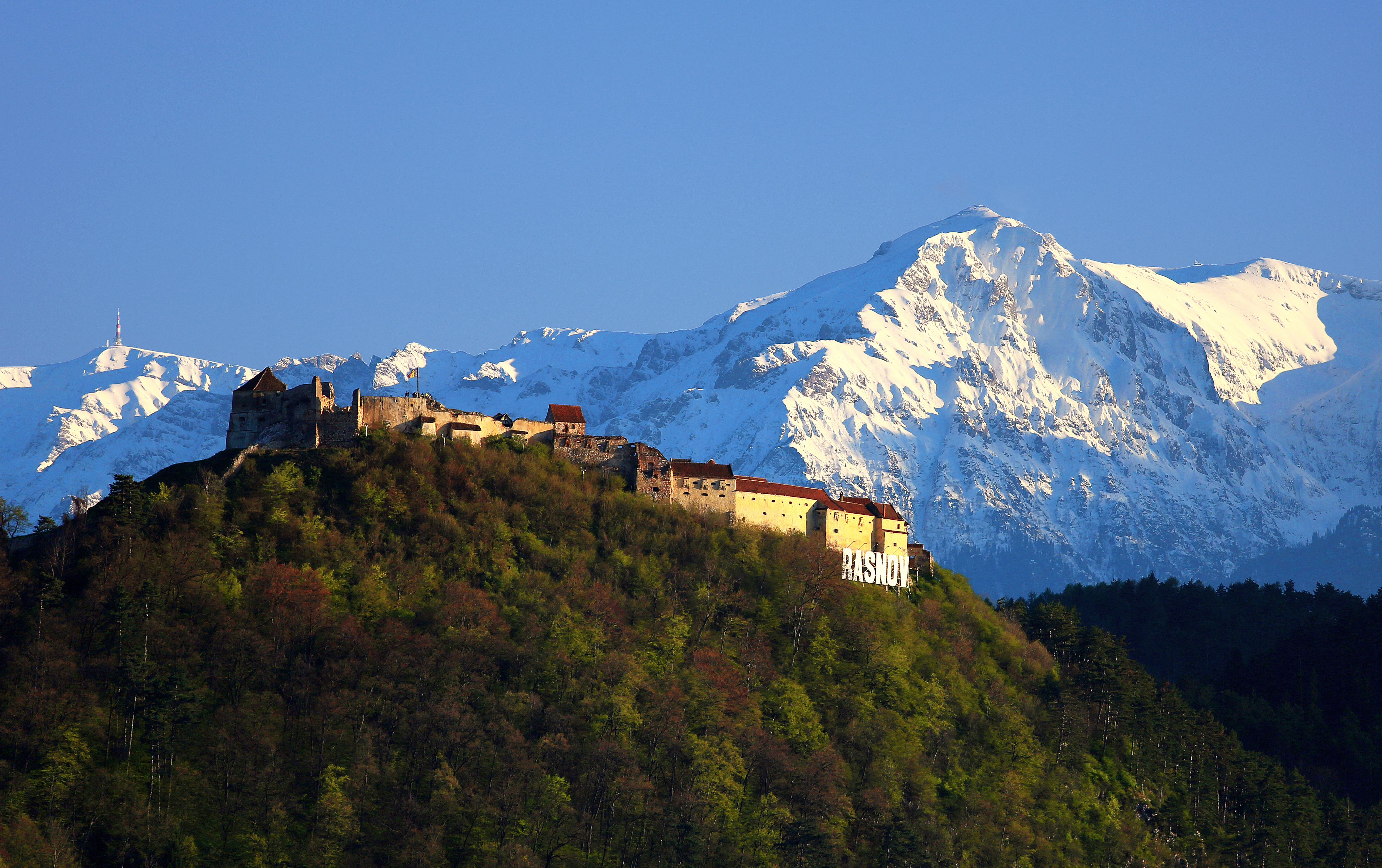 Medieval fortification of Râșnov Citadel, seen from the Cristian-Râșnov road